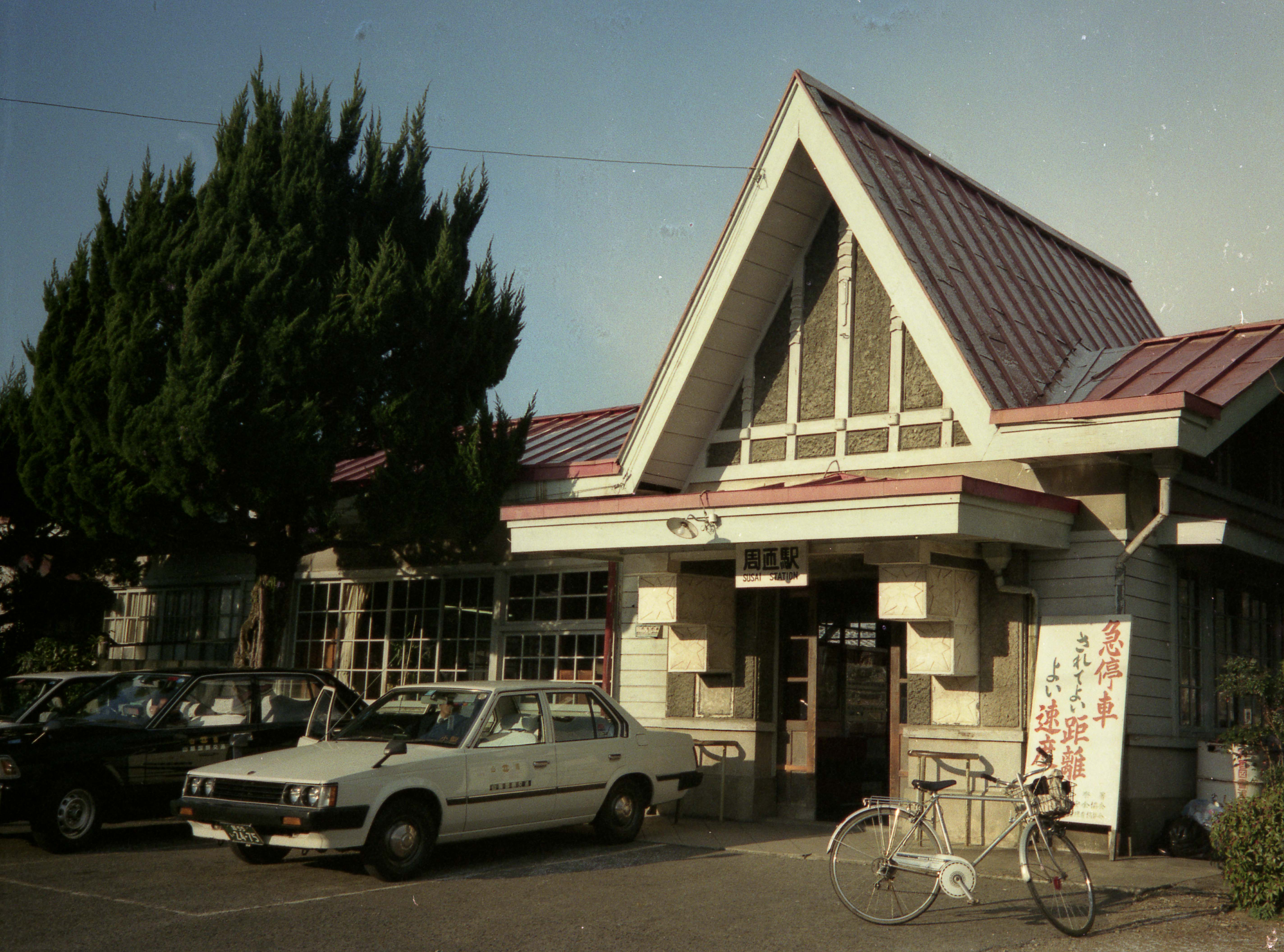 The building of Susai Station,Katakami Railway(before abolished)